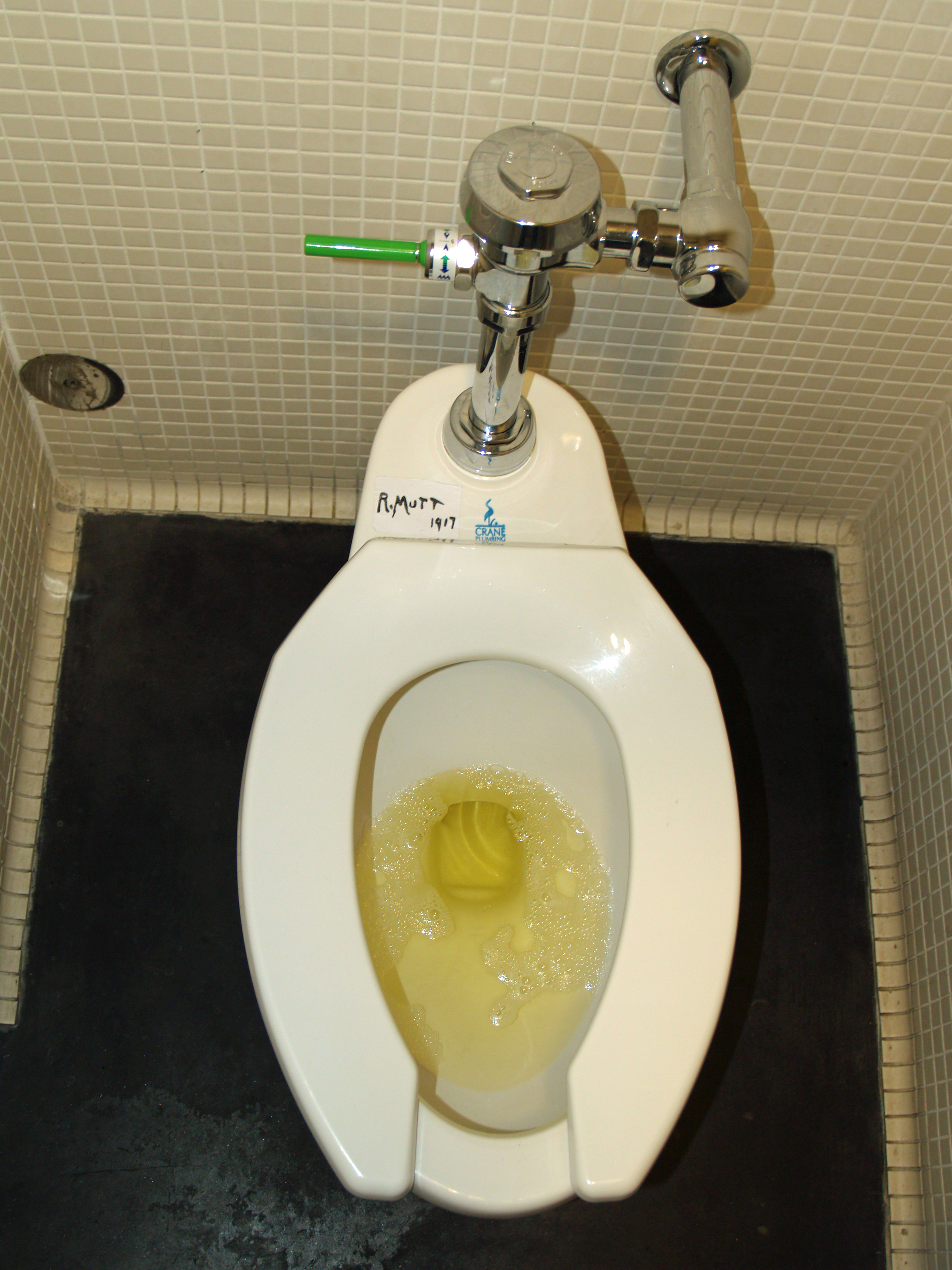 Human urine in a toilet at the Denver Museum of Contemporary Art with a sticker alluding to Marcel Duchamp's Fountain.